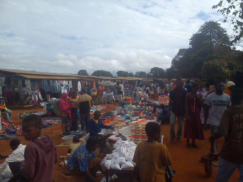 Songea city market